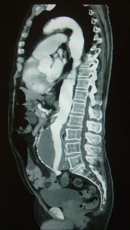 This is an example of bolus tracking in the use of imaging an abdominal aortic aneurysm (AAA).